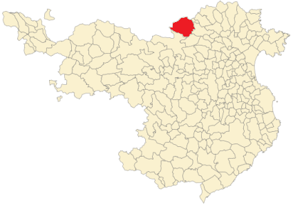 Massanet de Cabrenys